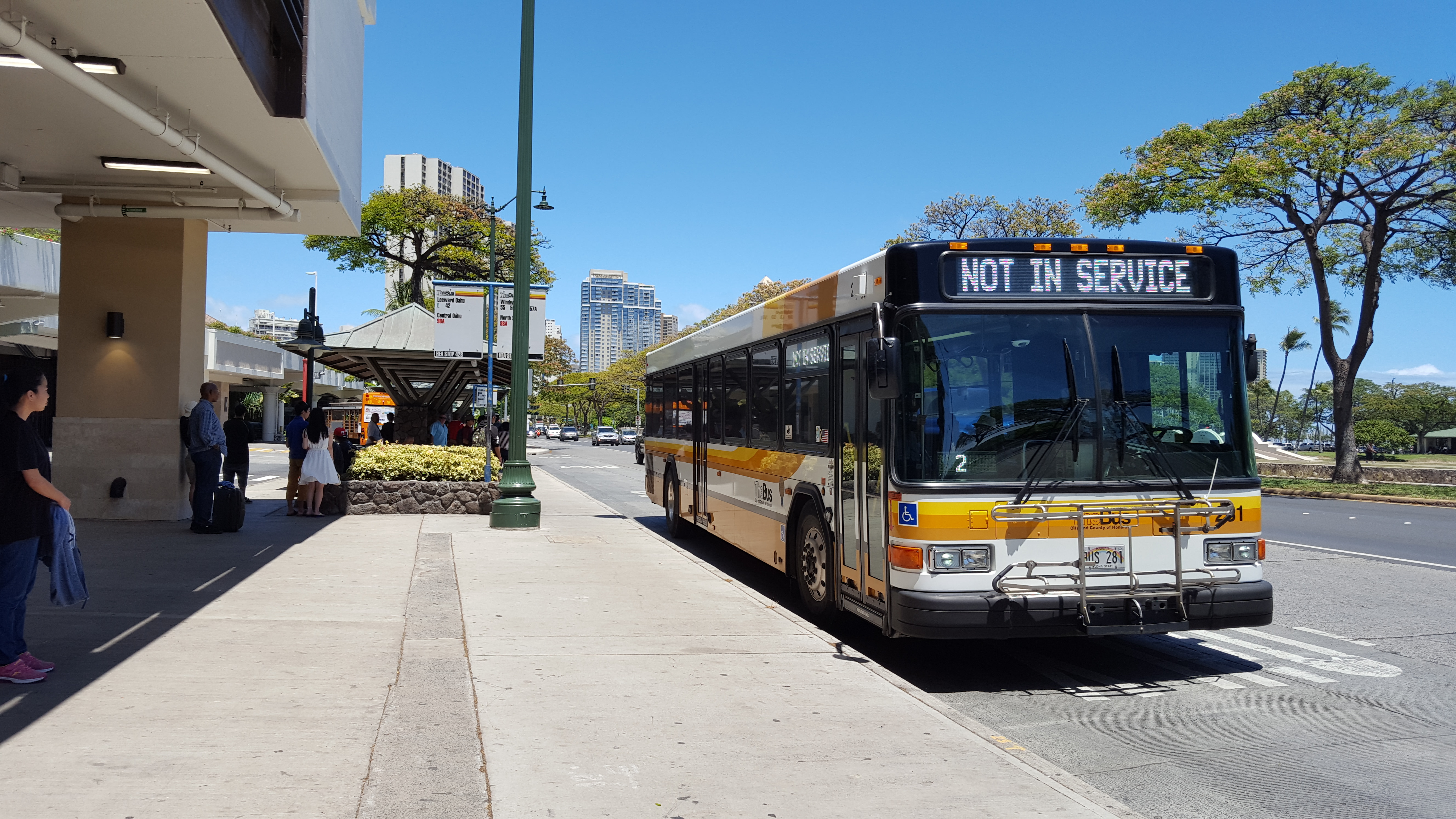 TheBus (Honolulu)